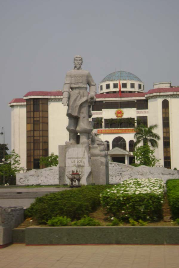 Le Loi statue in Thanh Hoa city